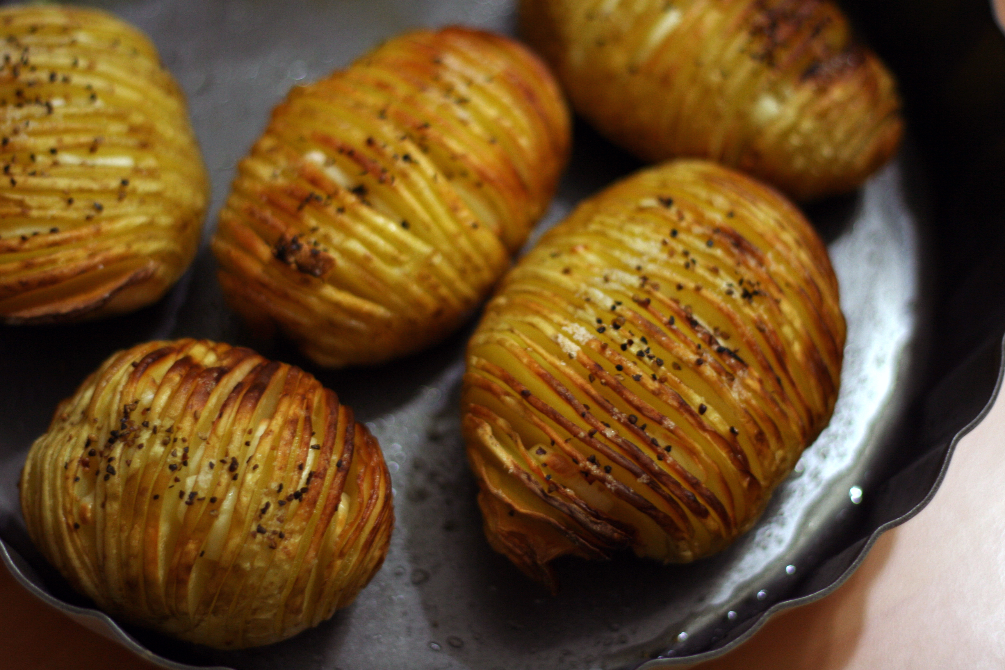 Baked hasselback potatoes in a tray